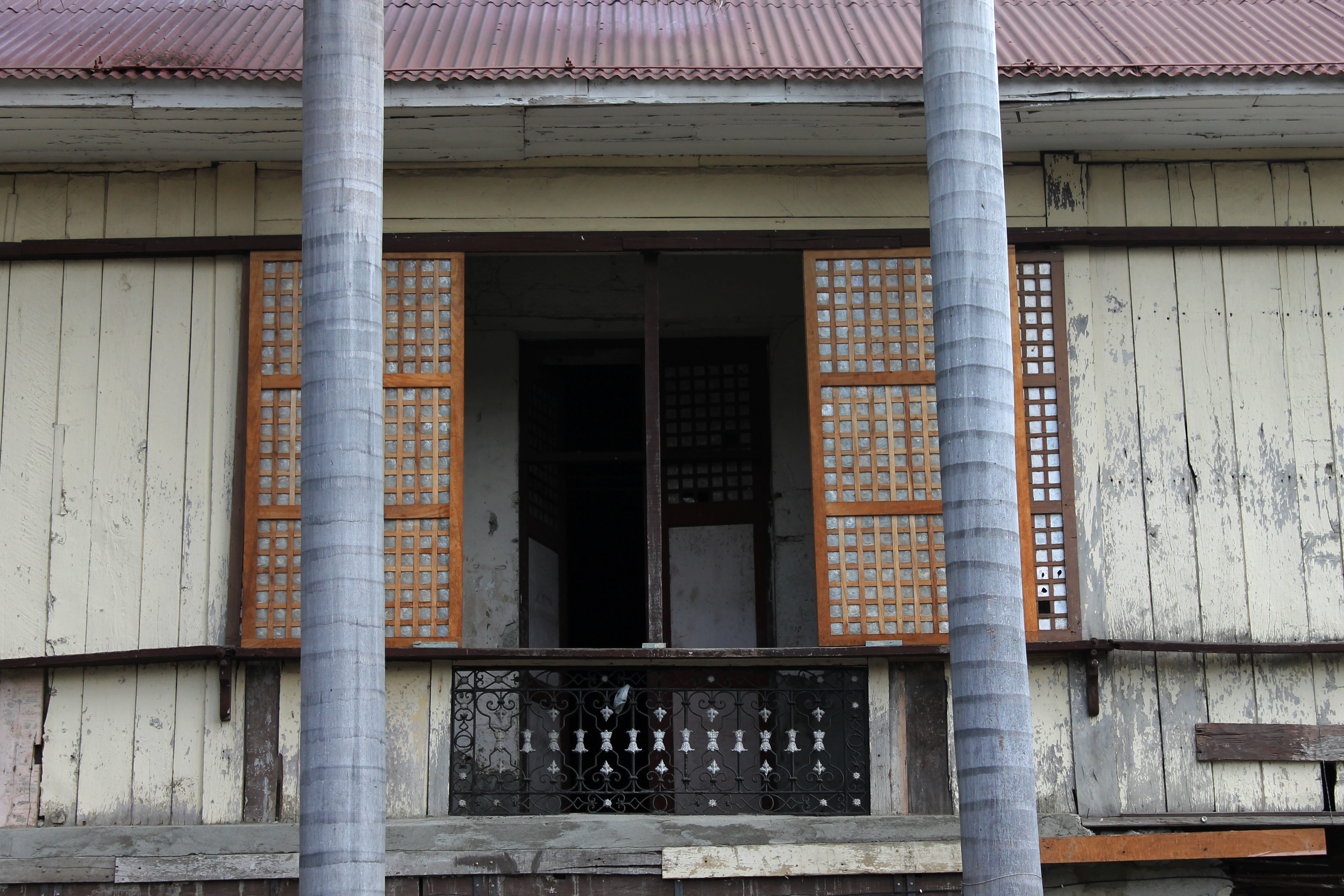 Colonial Spanish era design of a window/balcony at the convent of the Calasiao Church